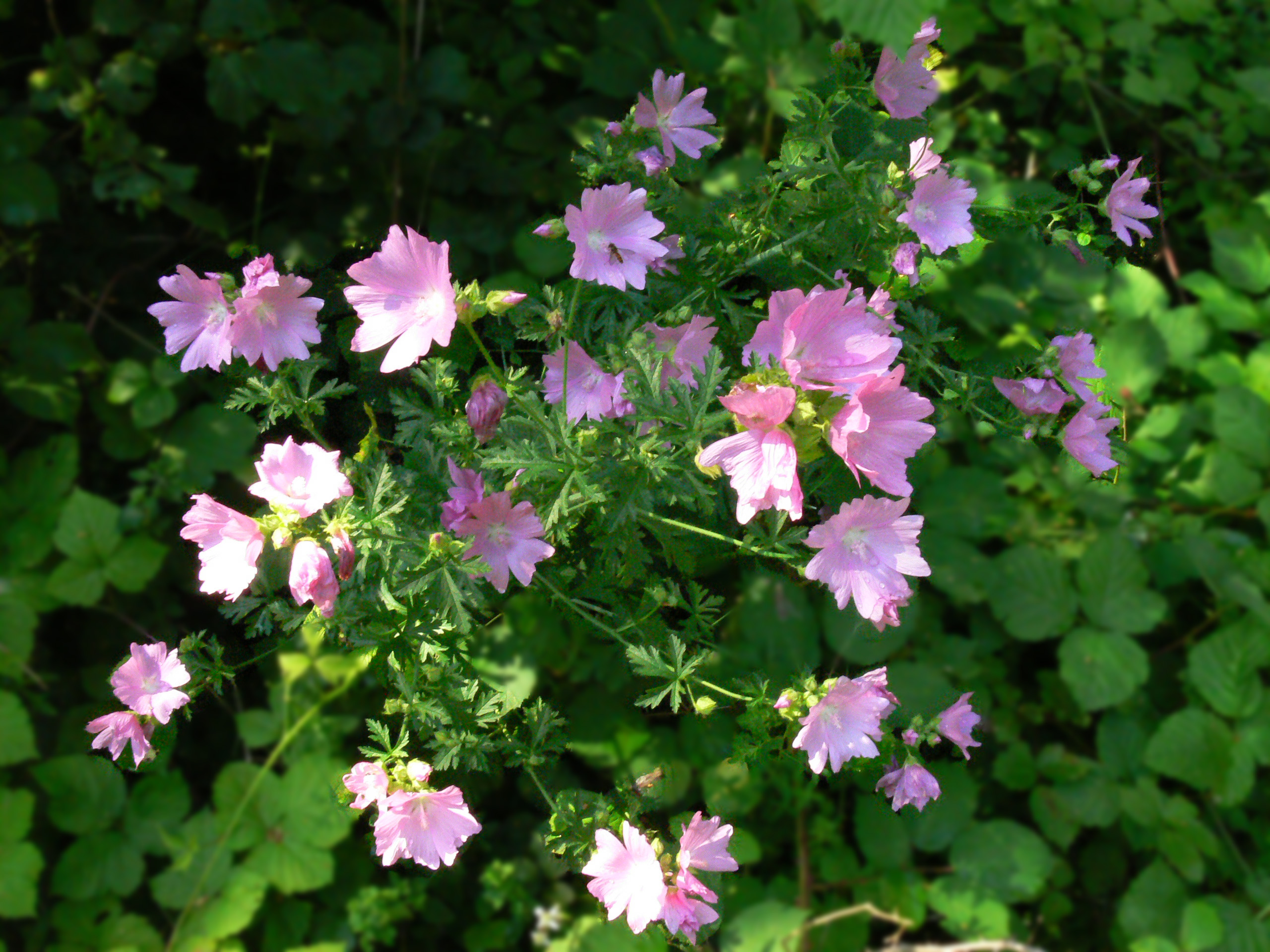 Photograph of a hollyhock mallow (Malva alcea) growing in Albachten, Germany